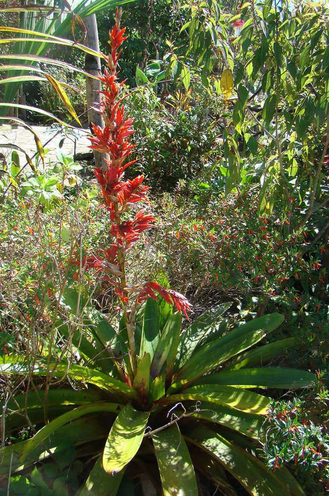 A species reported from the mountains of Colombia. Photo from El Dorado Lodge in the Santa Marta Range. In context at